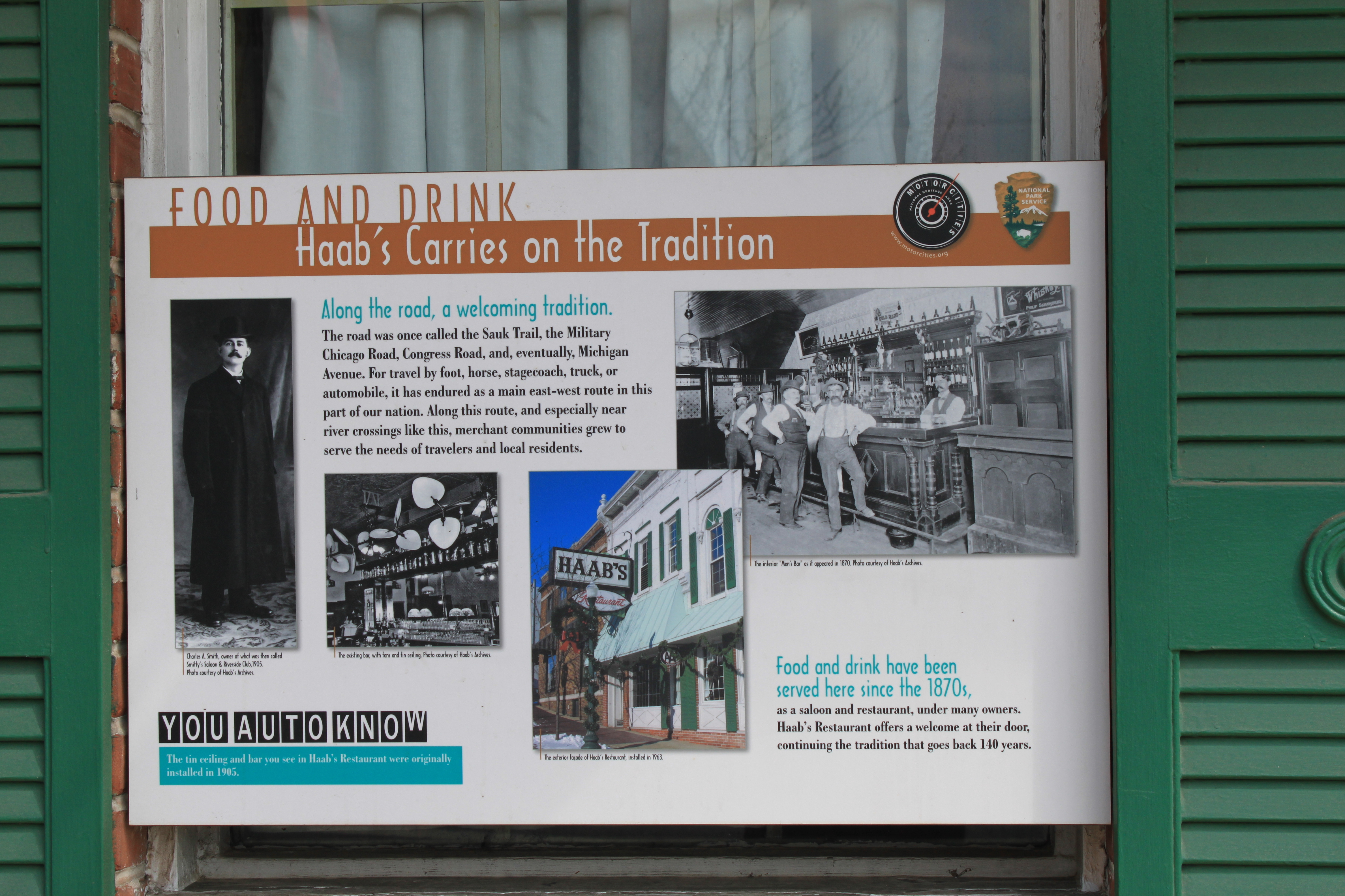 Haab's Restaurant wayside sign